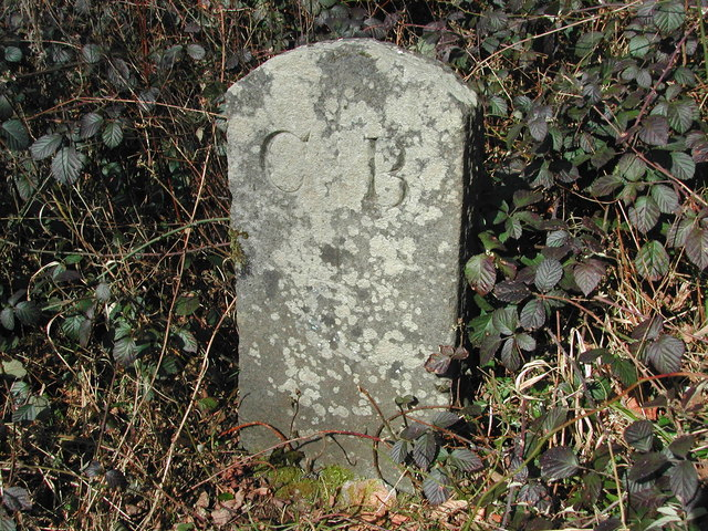 Weston Big Wood - Boundary Stone, nr Weston in Gordano, Somerset